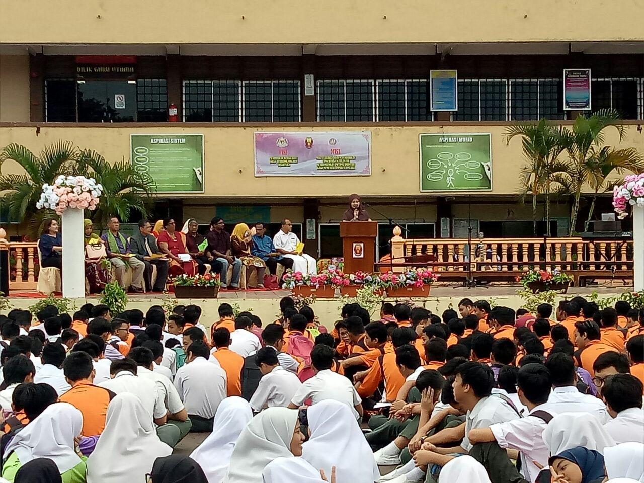 Astaka Dataran Perhimpunan